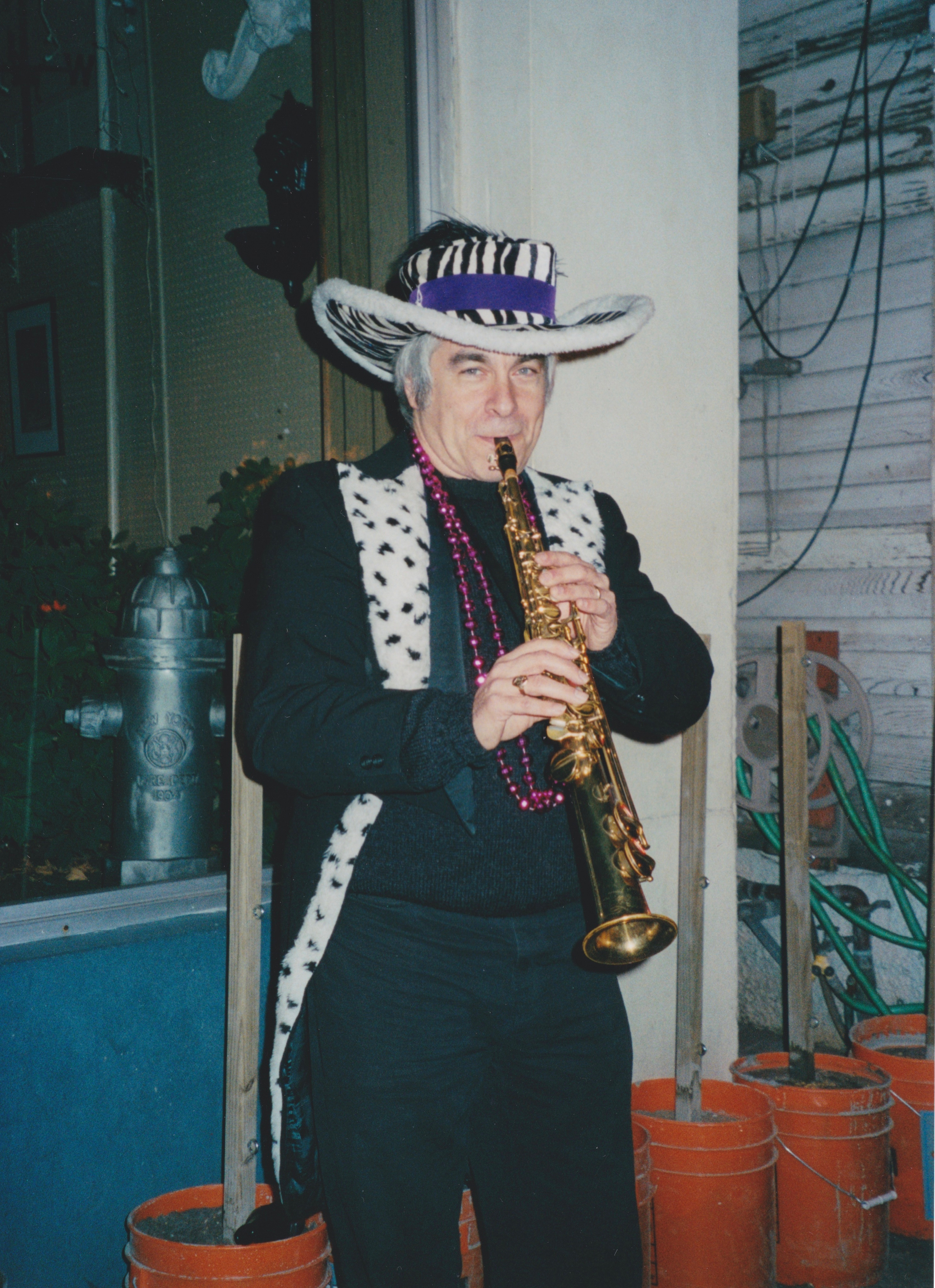 Musician playing soprano saxophone, wearing flamboyant costume for New Orleans Carnival celebrations. Photo by Infrogmation, Carrollton neighborhood, 4 February, 2005.